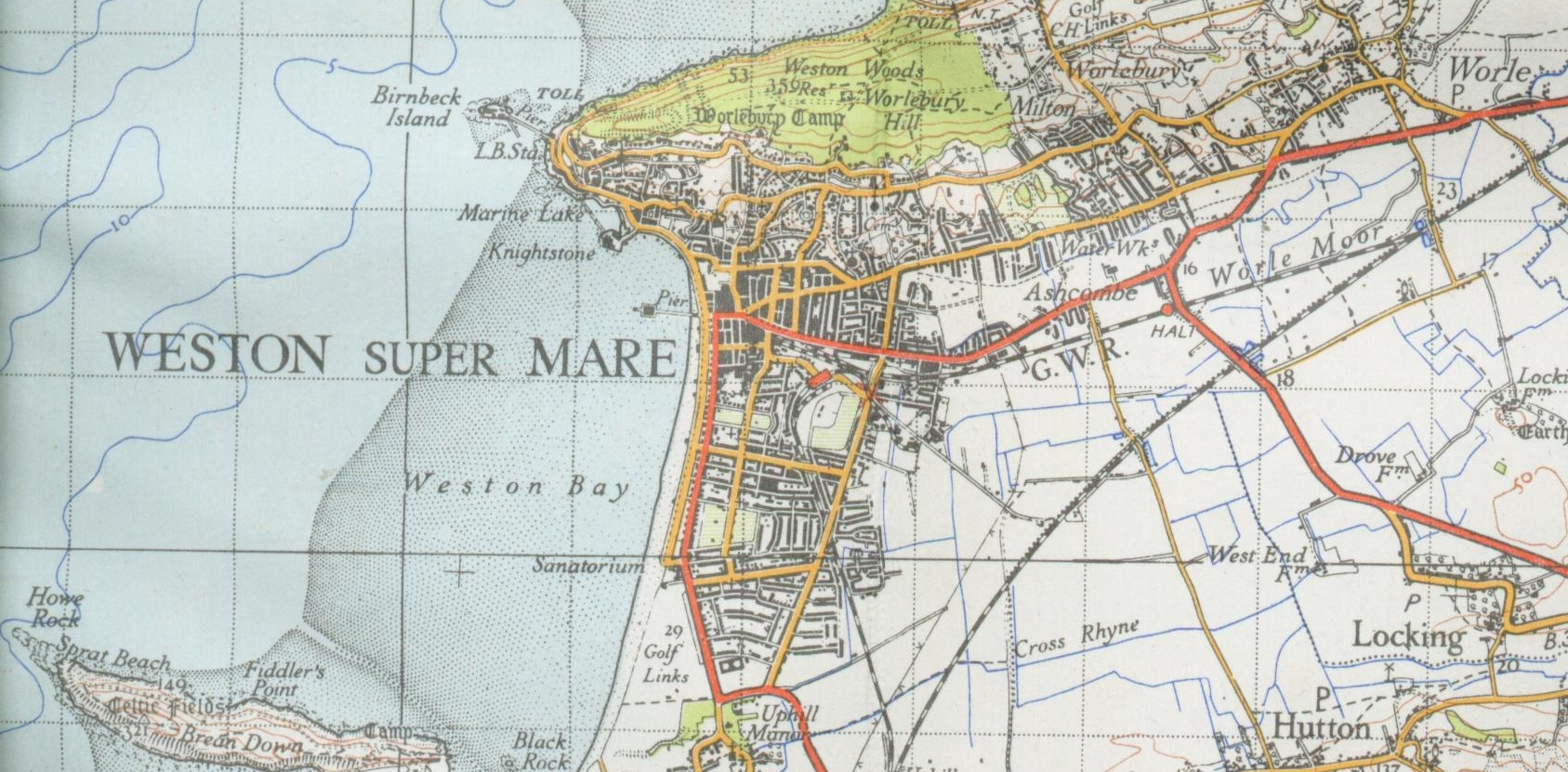 Map of Weston-super-Mare from 1946 1 inch to the mile new popular edition